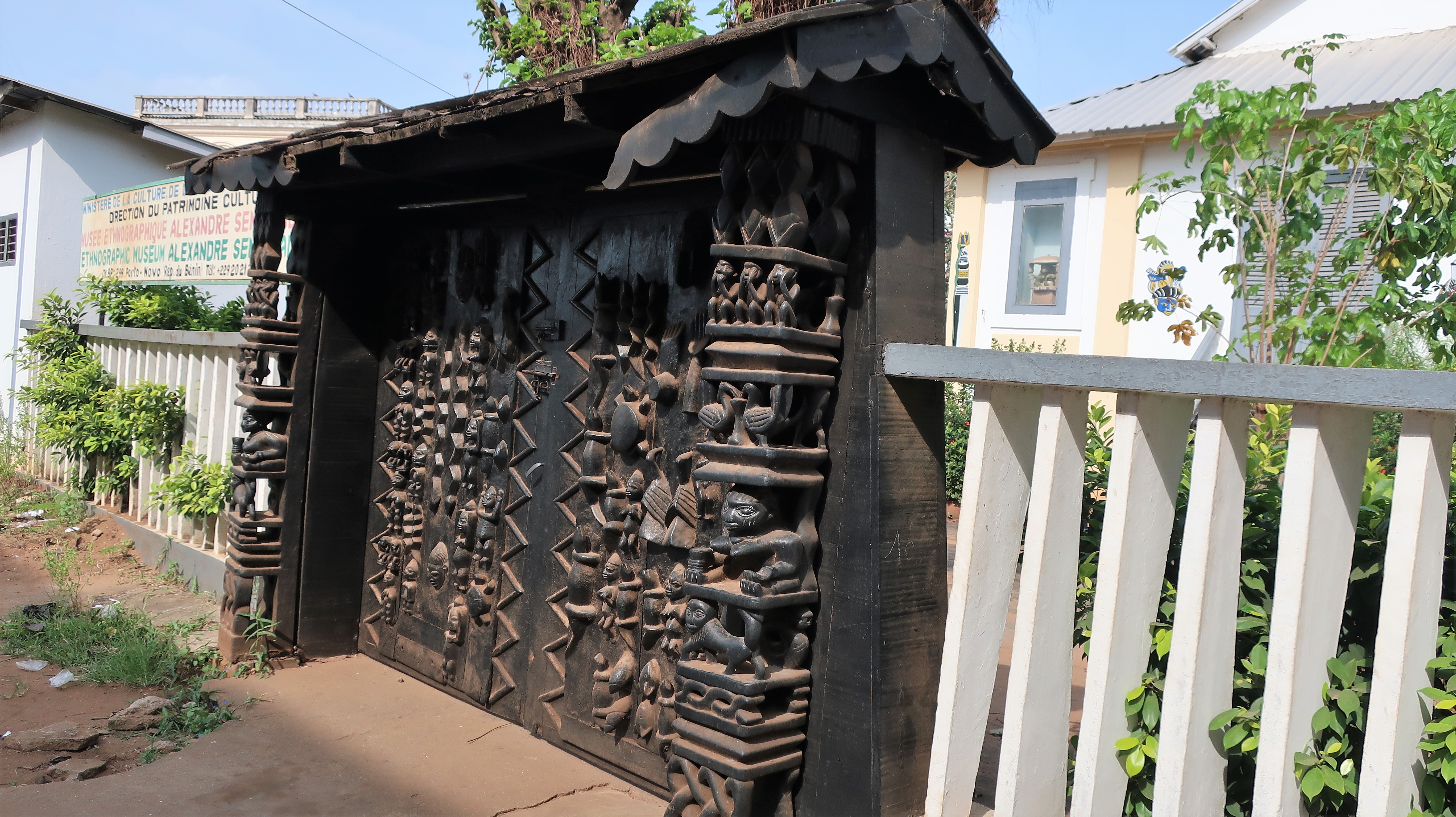 The gate to the Musée ethnographique Alexandre Sènou Adandé in POrto-Novo, Benin in December 2017.